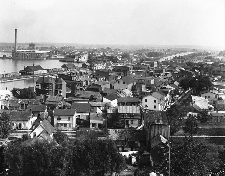 Photograph, Valleyfield, QC, about 1900, N. M. Hinshelwood, Silver salts on glass - Gelatin dry plate process - 16 x 21 cm